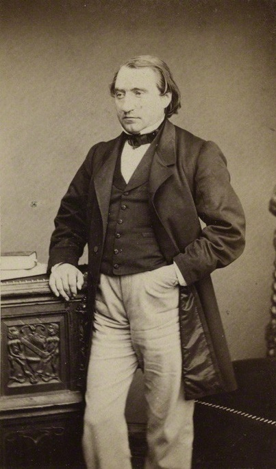 Portrait of Joseph Ernest Renan, albumen carte-de-visite, 1860s